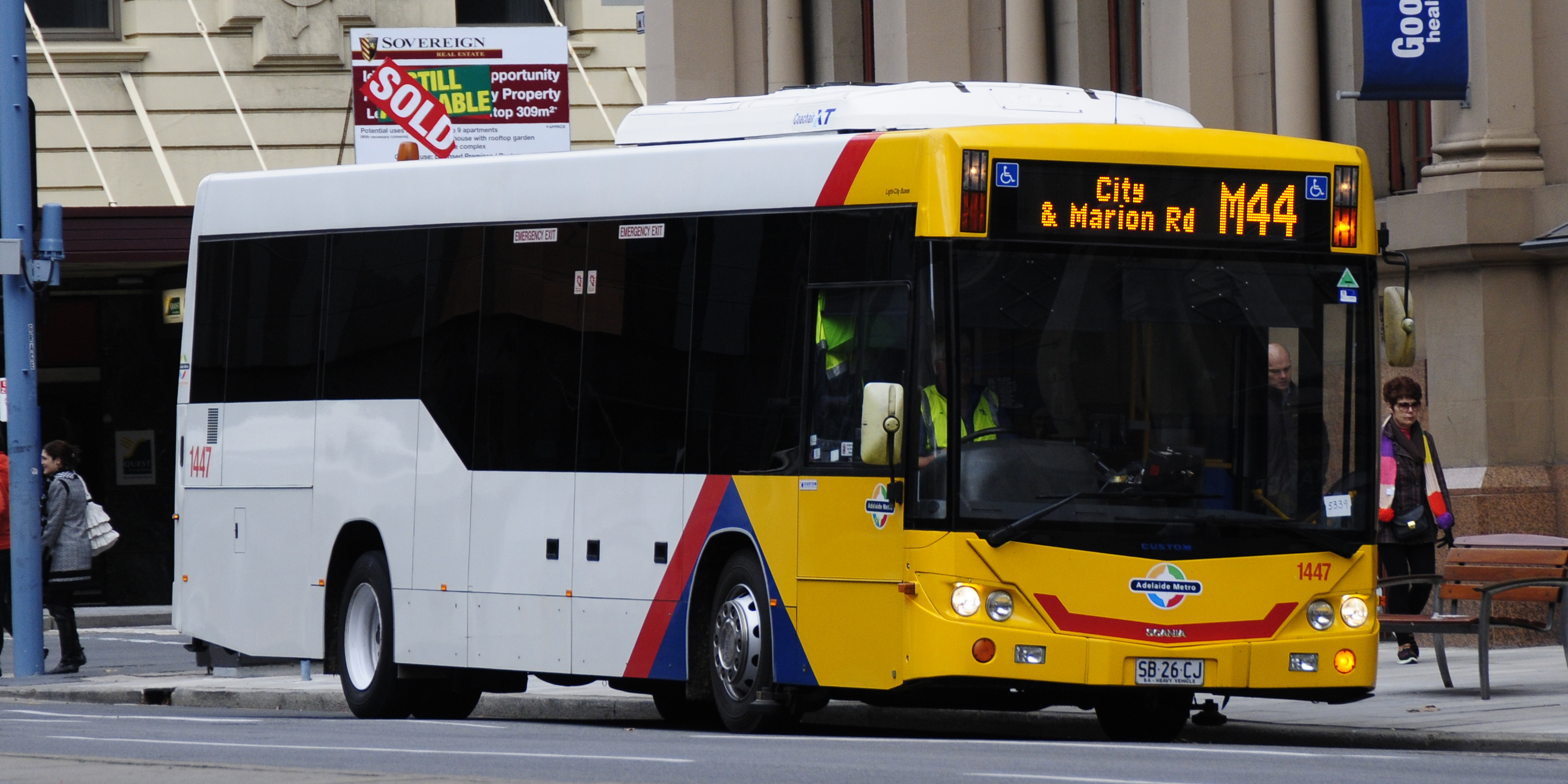 Light-City Buses Custom Coaches CB60 Evo II bodied Scania K230UB (Fleet no. 1447) of route M44 (to Marion Centre Interchange) on Currie Street.